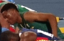 2016 IAAF World U20 Championships in Bydgoszcz, 100m men final